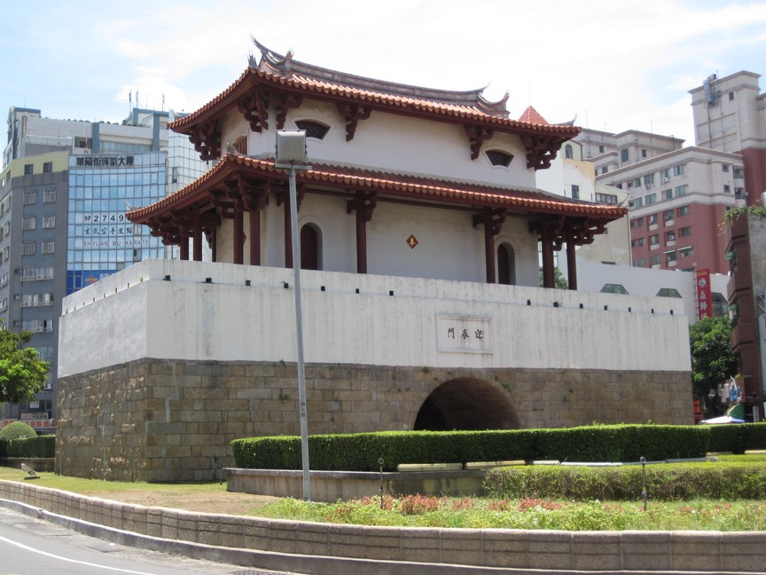 The east gate of Tainan City. 中文（台灣）: 台南市大東門(迎春門)